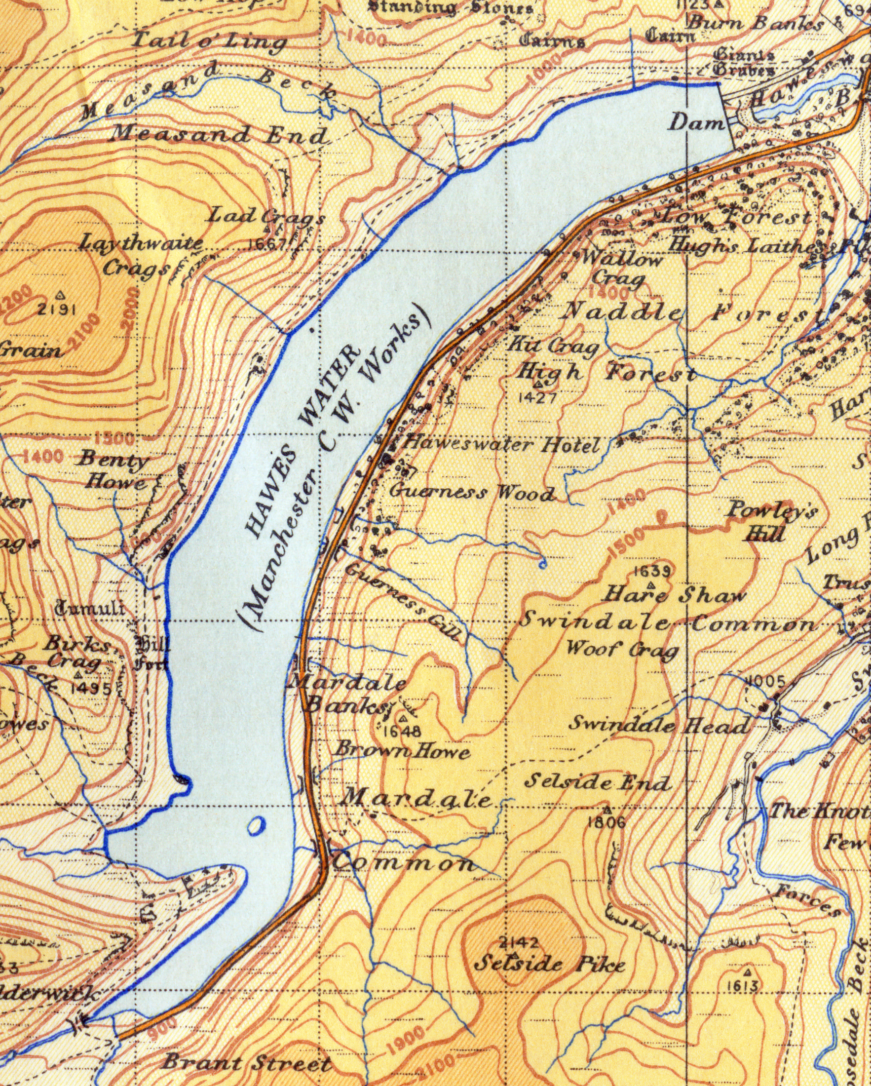 Map of Haweswater Reservoir from 1948 scale 1 inch to the mile scanned at 600DPI